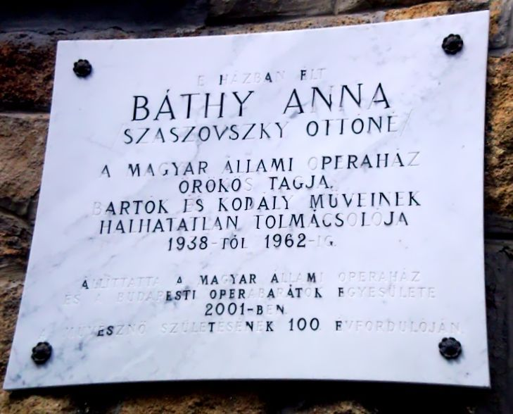 Anna Báthy commemorative plaque in Budapest District XII, Határőr Street No 37